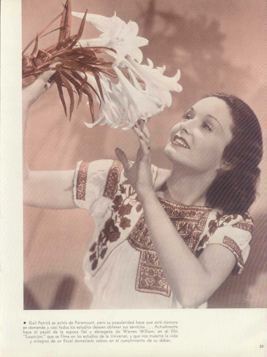 Publicity photo of Gail Patrick for Argentinean Magazine. (Printed in USA)